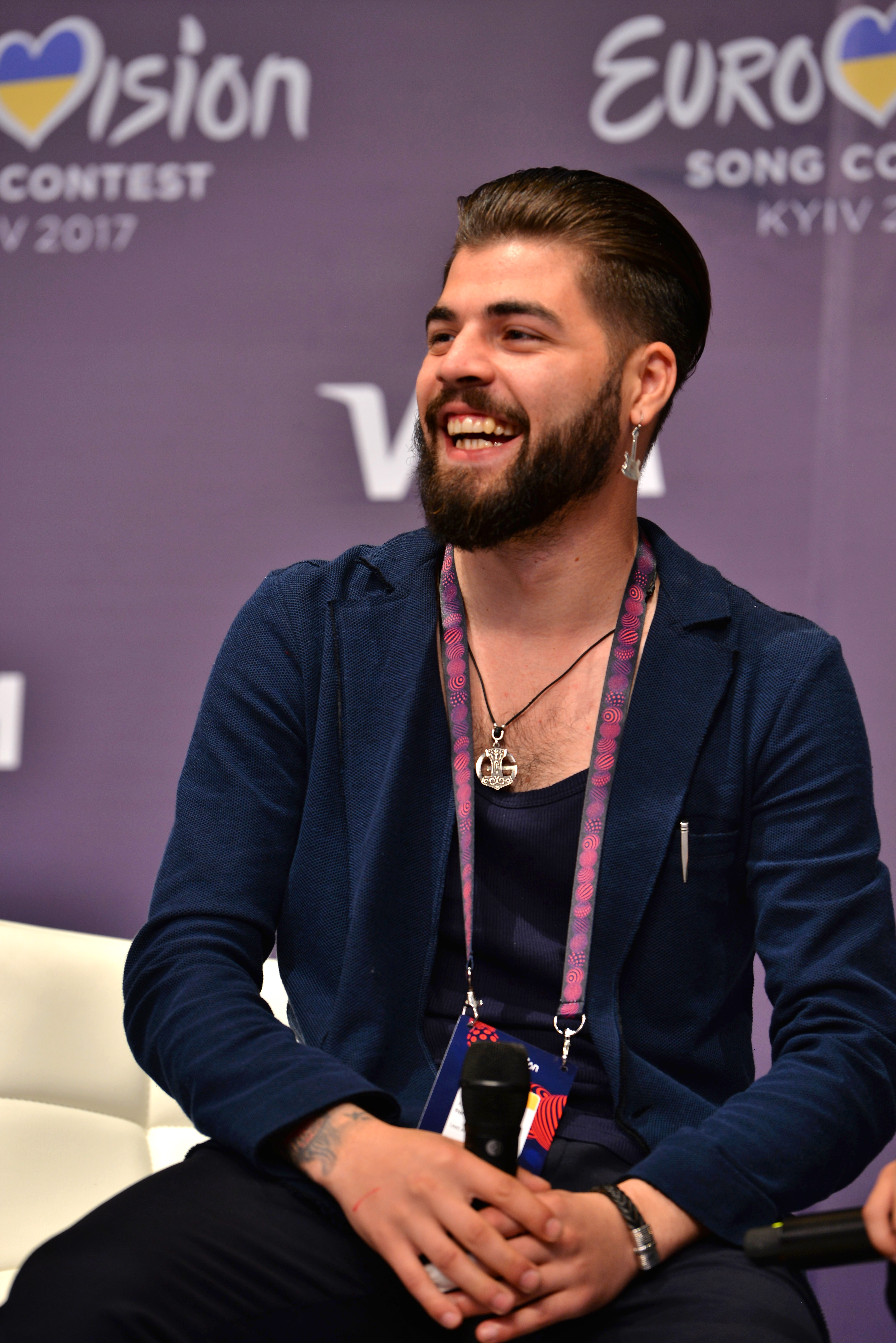 Romanian singer Alex Florea in Kyiv 2017